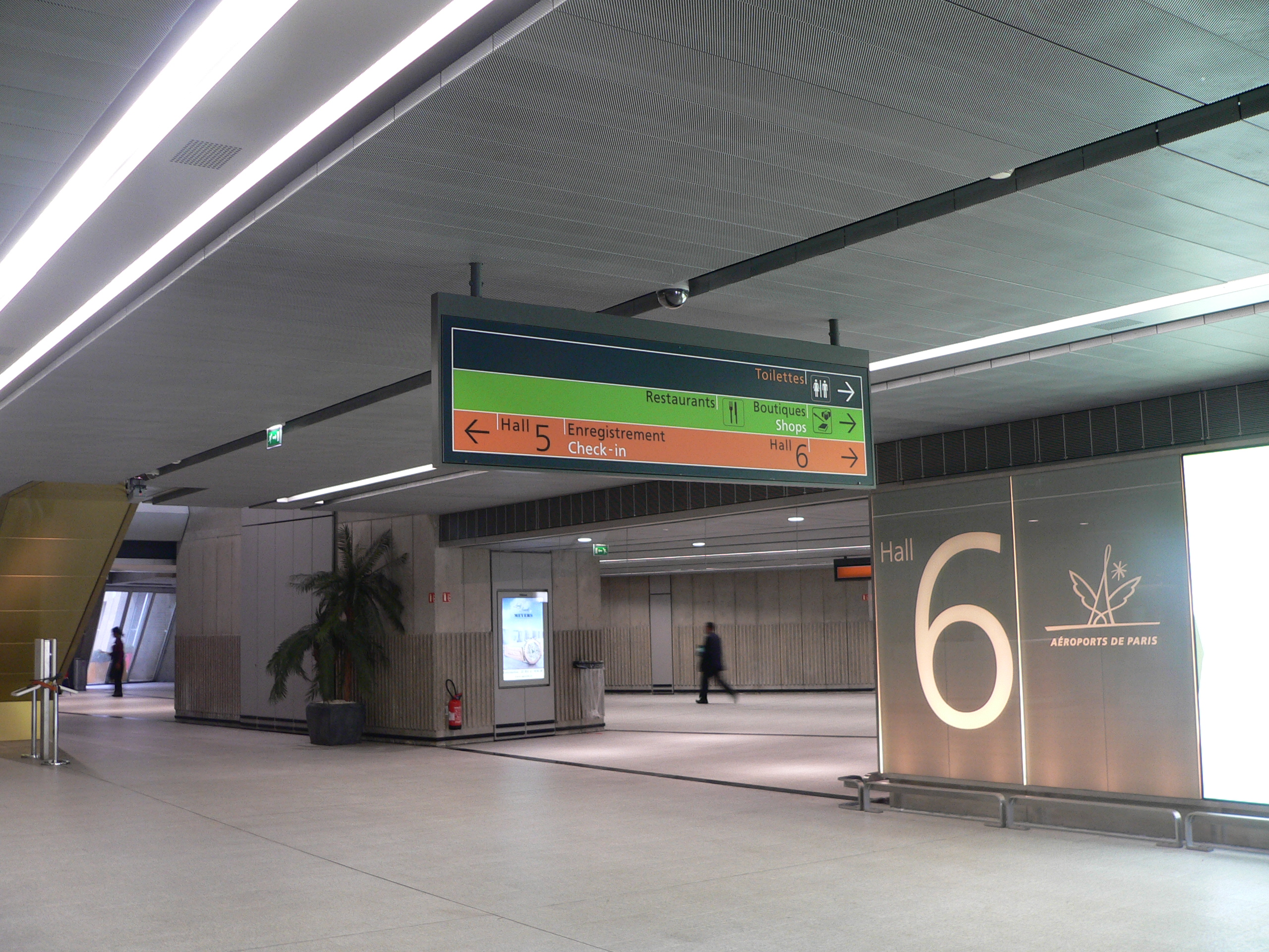 Charles de Gaulle International Airport: inside Terminal 1